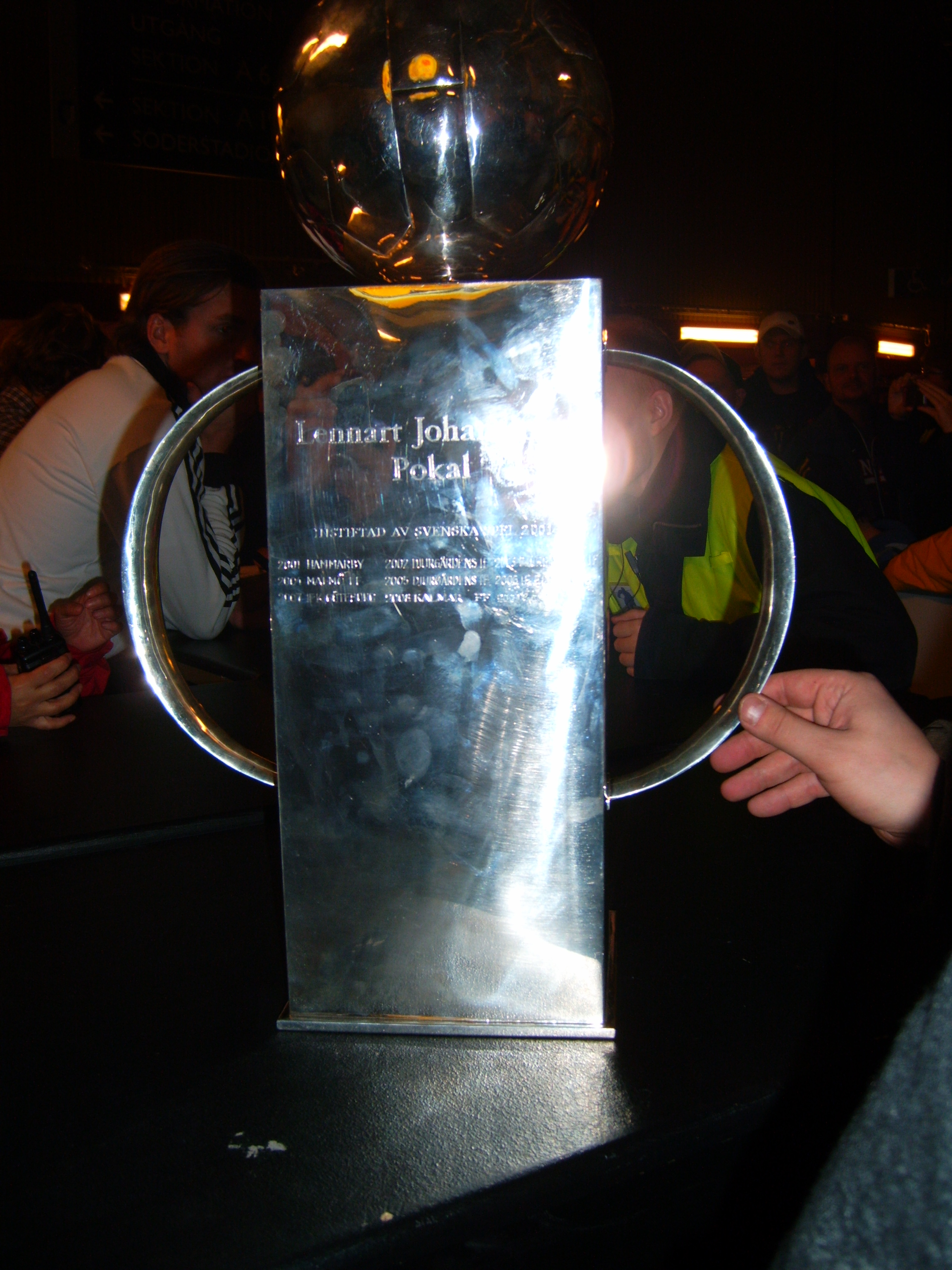 The Swedish soccer trophy Lennart Johanssons pokal.